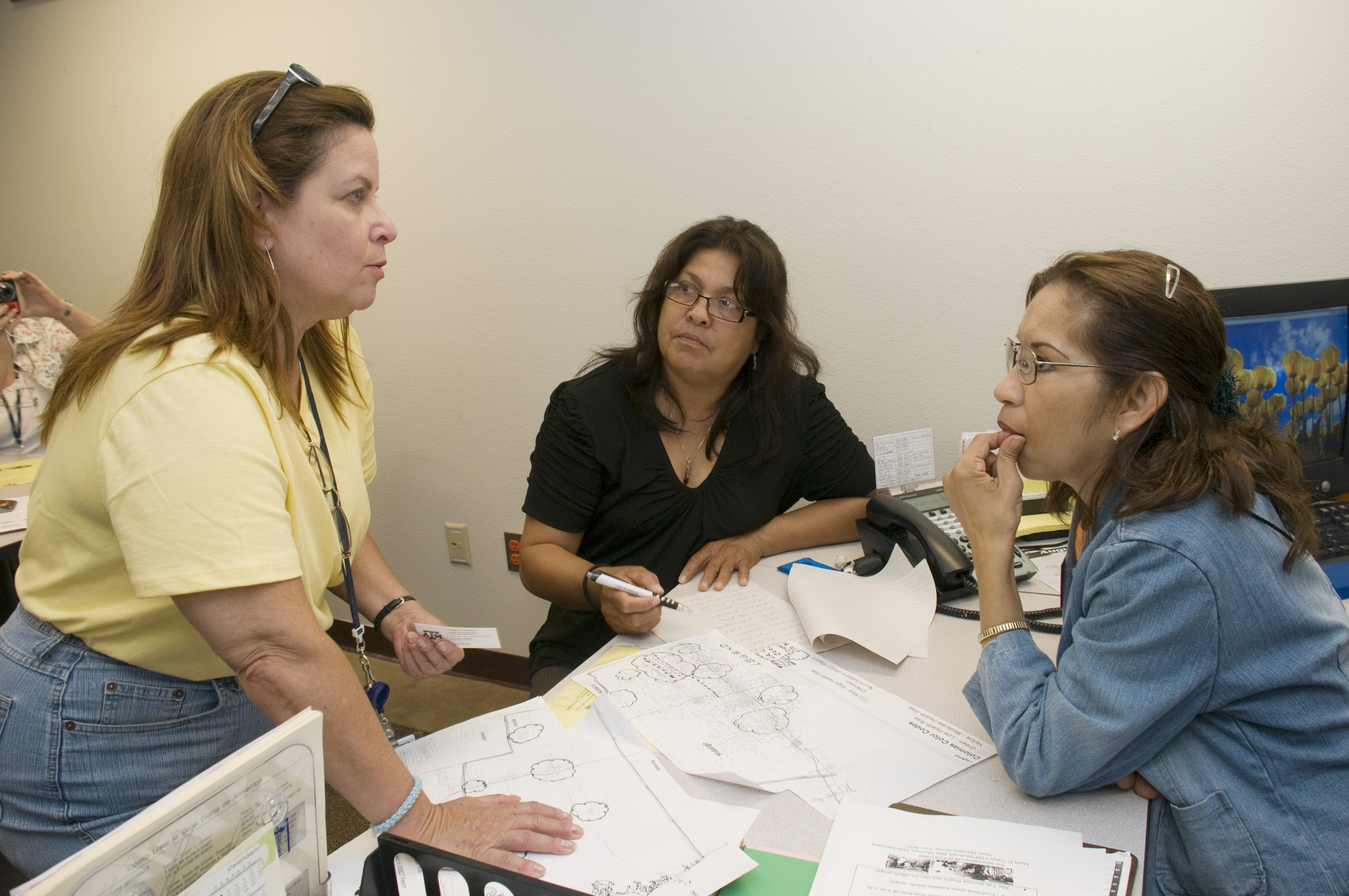 San Juan, TX, August 8, 2008 -- Mayra Diaz, a FEMA colonies specialist meets with members of a San Juan community outreach program. FEMA is working with local and state organizations to reach out to residents living in the colonies, small sections of residents that exist along the border between Texas and Mexico. Photo by Patsy Lynch/FEMA